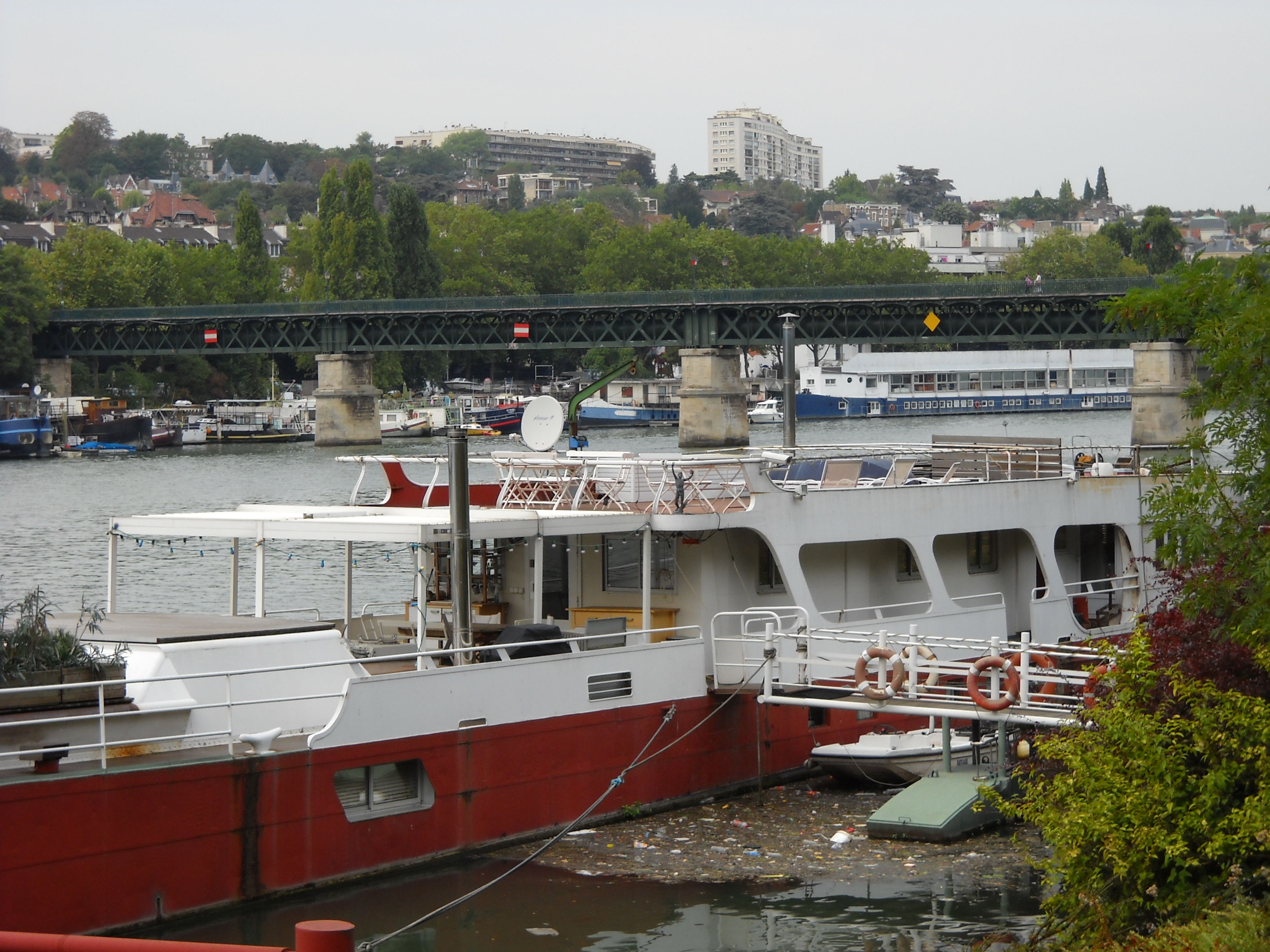 Walking bridge over the Seine river, in Hauts-de-Seine, France.